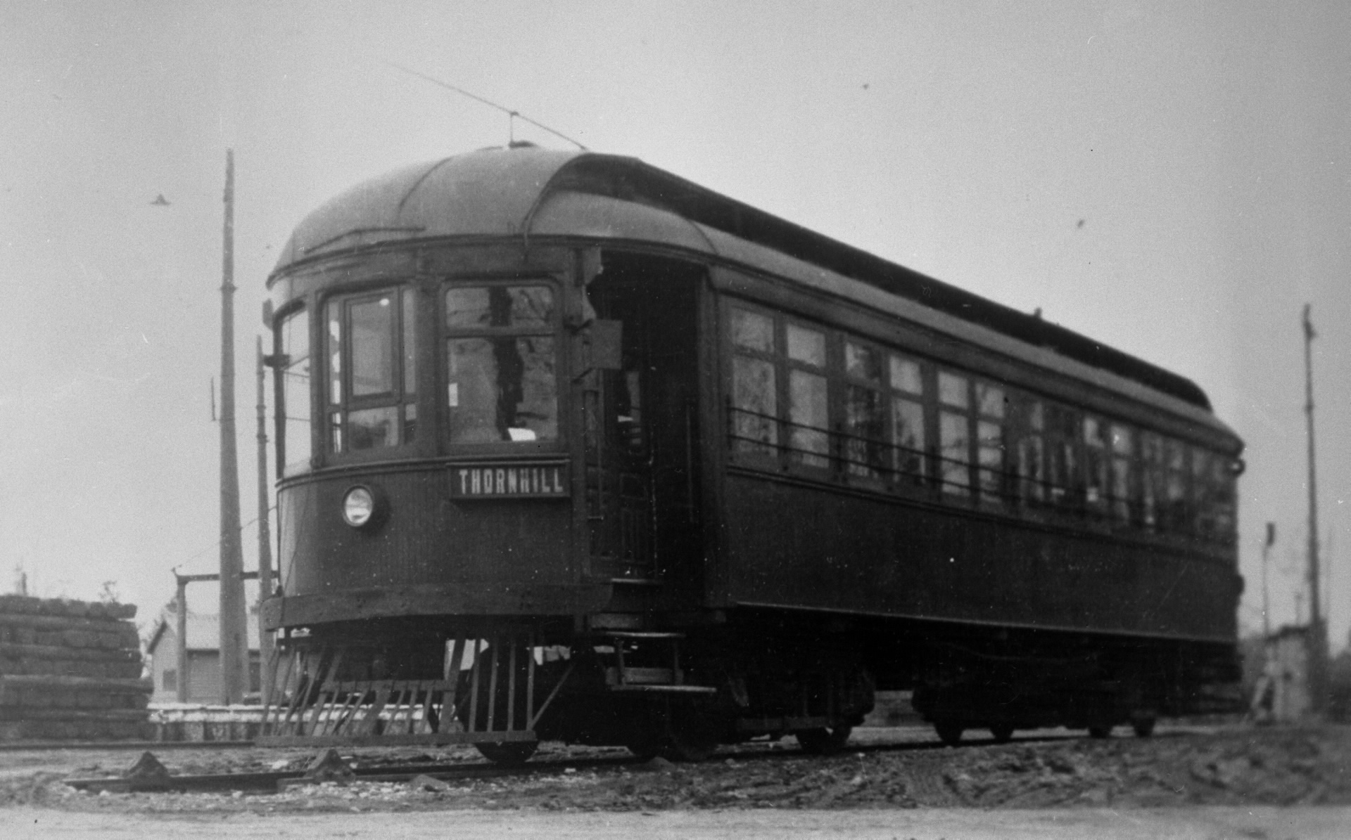 Toronto and York Radial Railway vehicle, circa 1921.